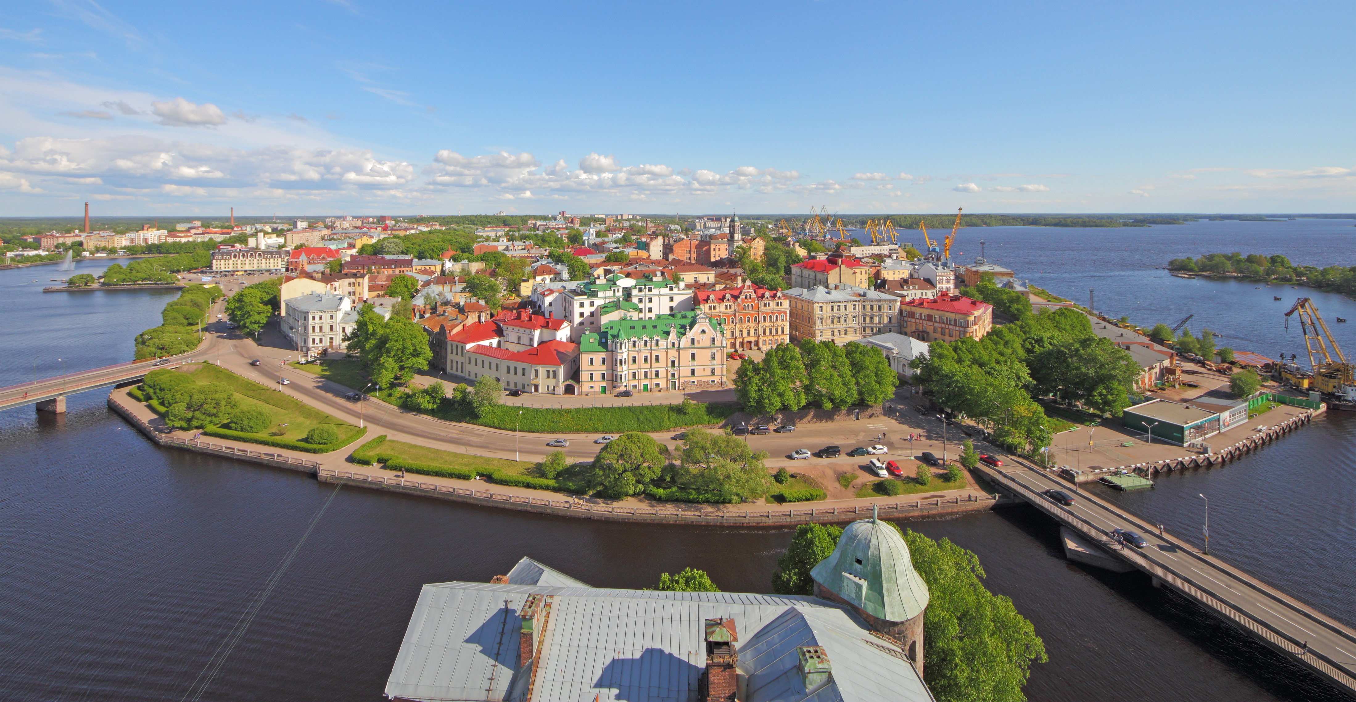 Vyborg (former Viipuri), Leningrad Oblast, Russia. Views from the Olaf Tower of the Vyborg Castle.